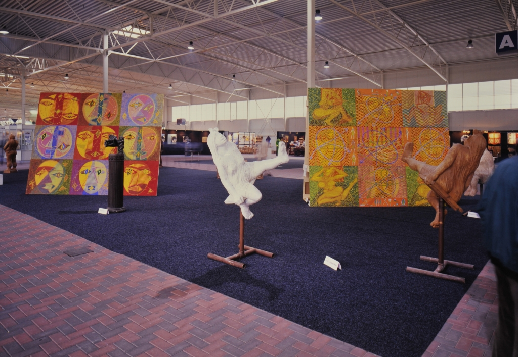 Výstava Martiny Dědičové a Bohumila Zemánka